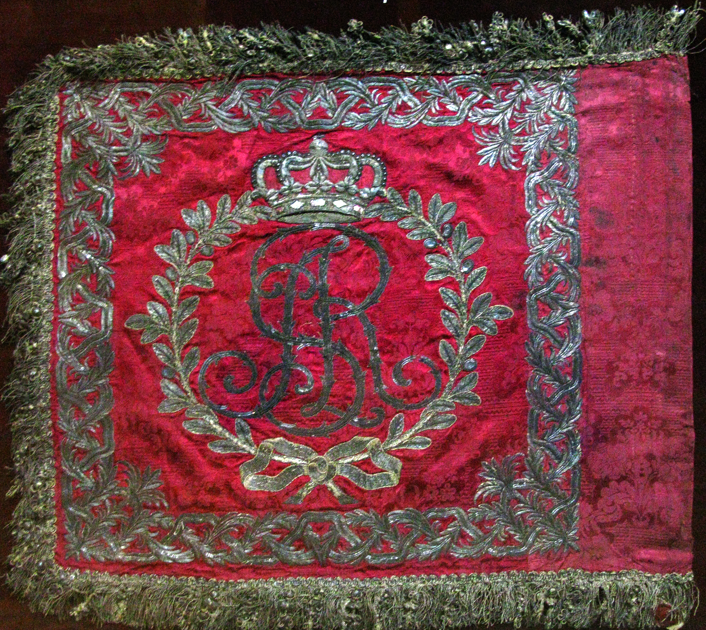 Banner of the Polish National Cavalry`s Squadron ca 1789-1794